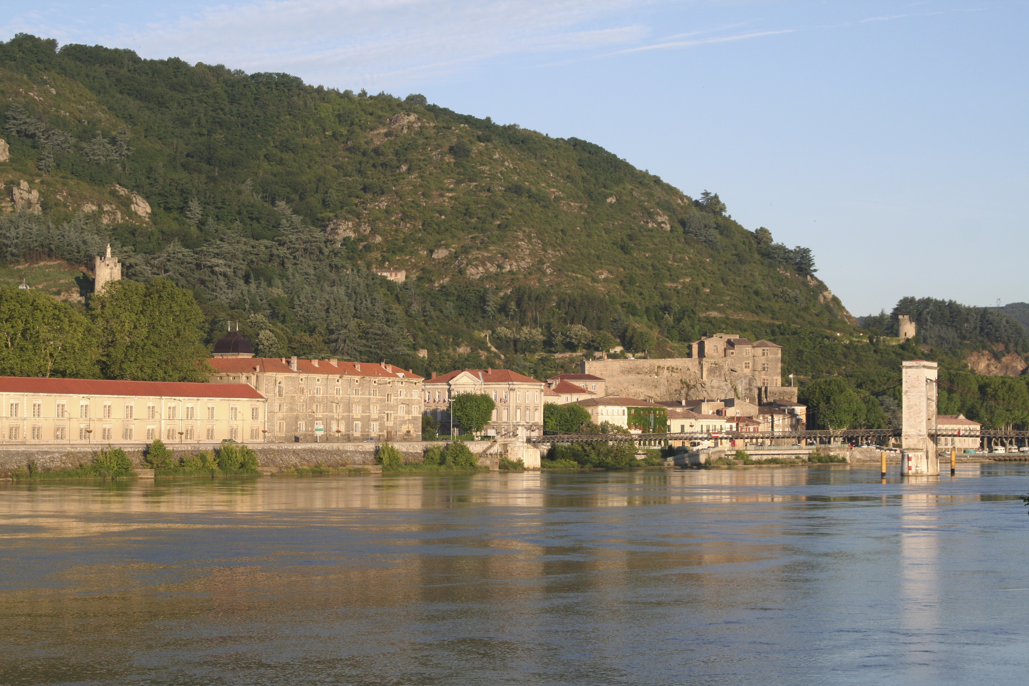 the castle of Tournon sur Rhone